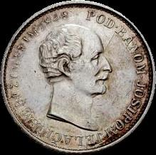 Jelacic-Gulden 1848 (Zagreb, Kingdom of Croatia, part of the Habsburg Empire in union with Hungary) - obverse